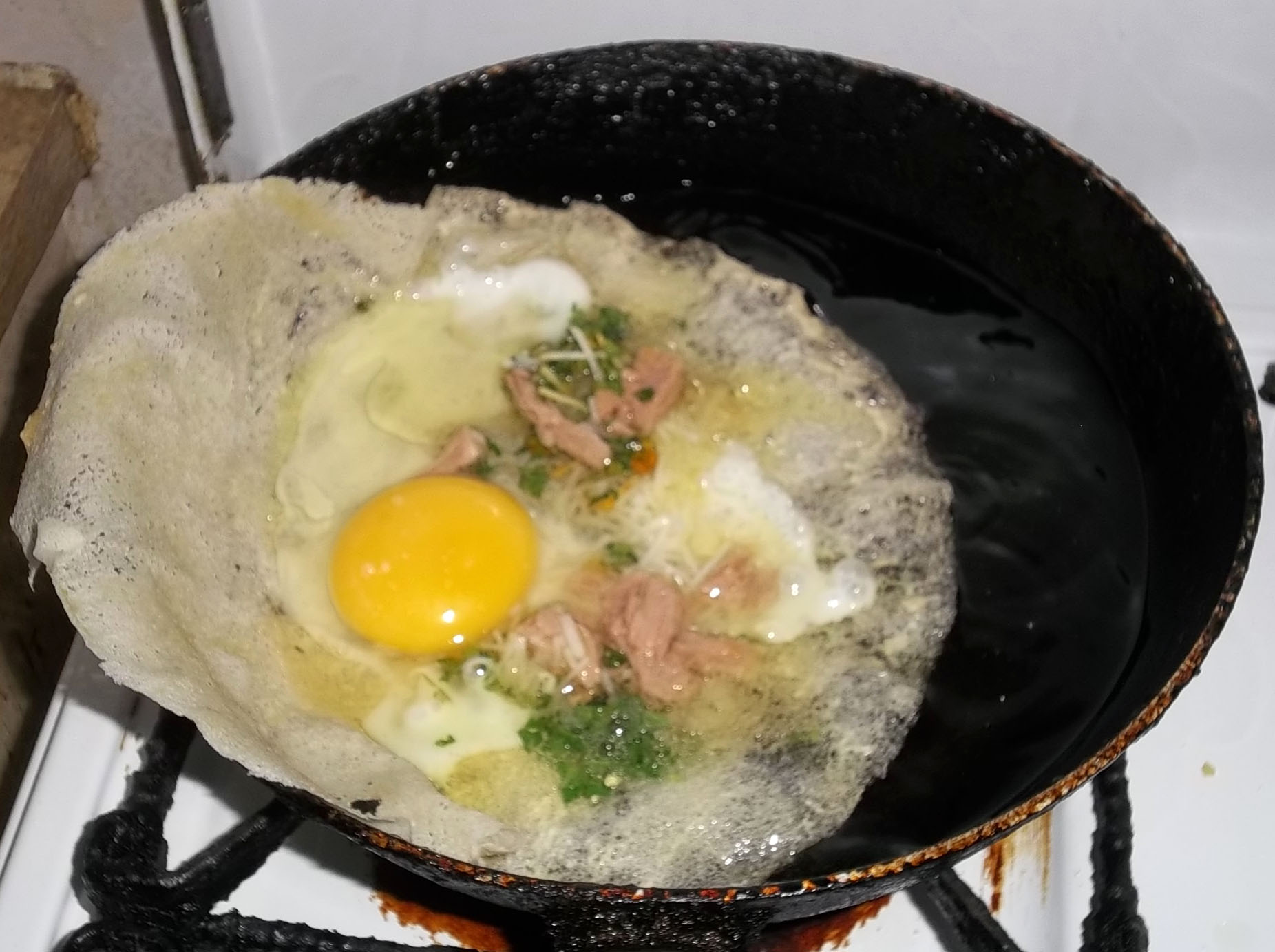 Consists of a thin pastry (referred to as malsouka or Warka) fried and filled with grated cheese, egg, parsley, salt and tuna. This is an image of food from Tunisia